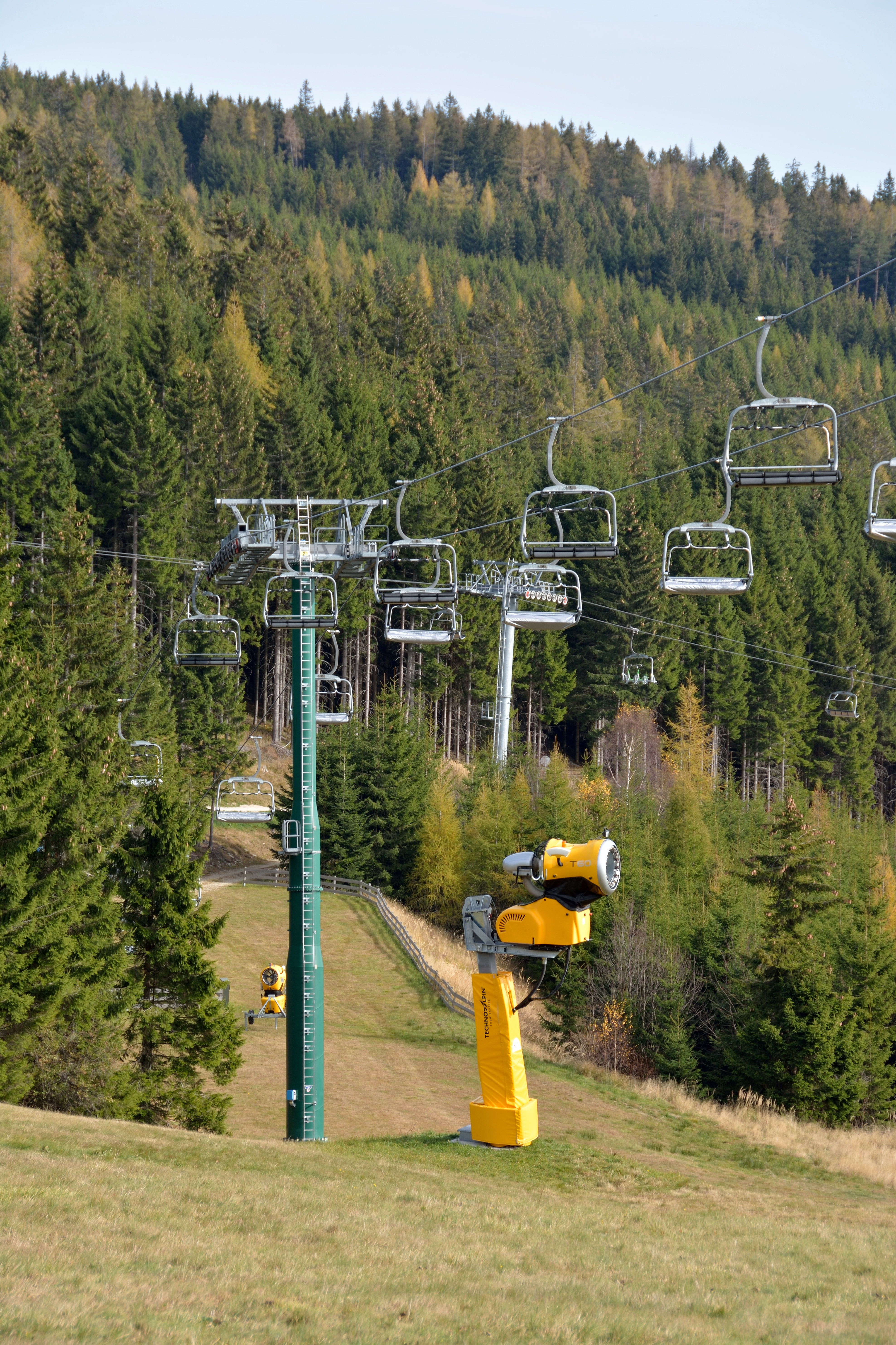 Snowmaking gun and chairlift at skiing resort Mönichkirchen, Lower Austria (off-season)